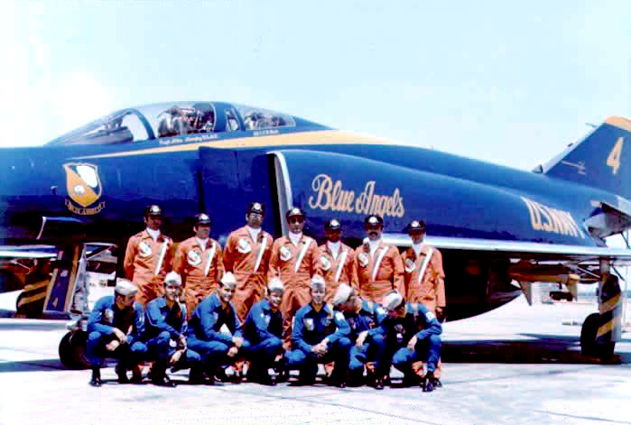 The "Golden Crown" and "Blue Angels" aerobatic teams in Theran, Iran, in June 1973. Six Northrop F-5E Tiger IIs of the "Golden Crown" team and six McDonnell Douglas F-4J Phantoms II of the "Blue Angels" flew aerobatics near Tehran. The names of the "Golden Crown" pilots were (back row, l-r): Imanian, Masoudi, Payadi, Kimiagar, Aghasi Beik, Khalili, and Nassikhani.